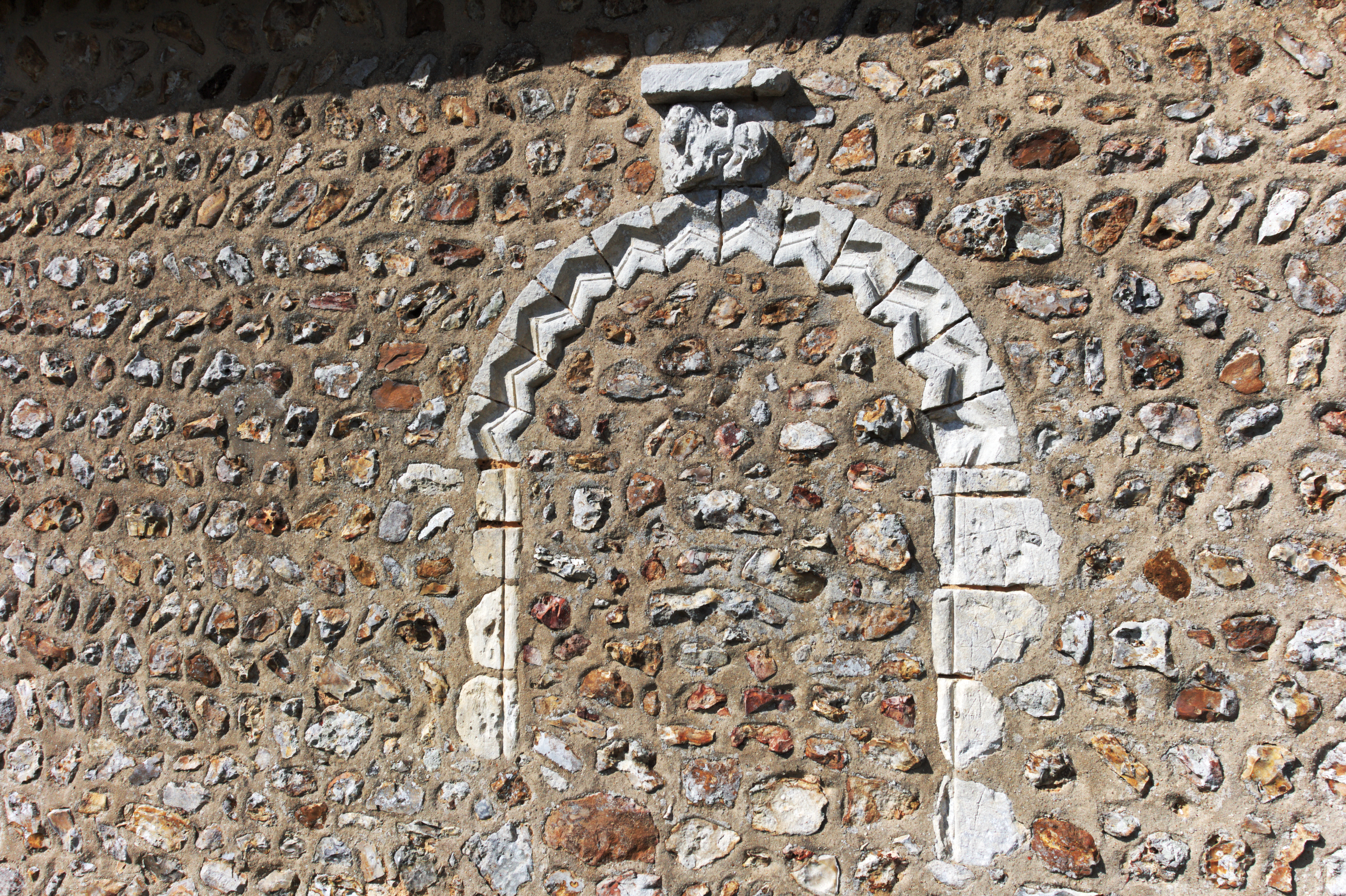 Romanesque southern door in the church Saint-Pierre of Saint-Pierre-des-Ifs (Eure, France). It is unknown, when it was closed. The southern door of the churches was the door where the coffin was carried for the burial. It led the soul into heaven.